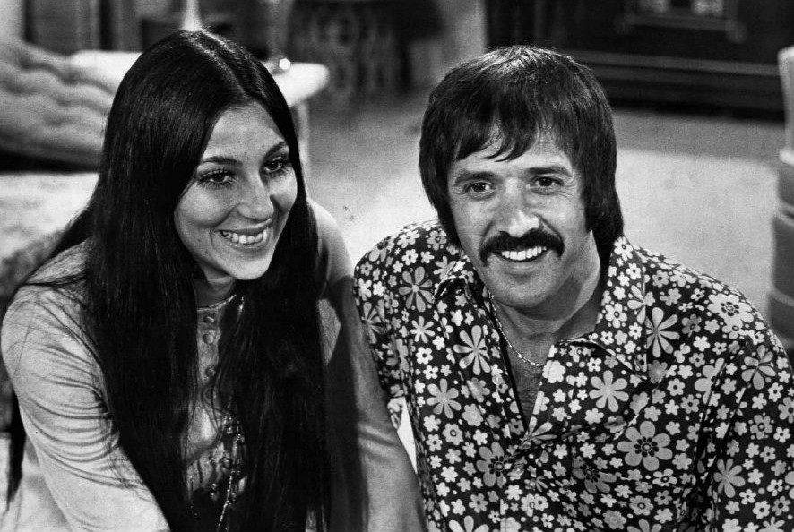 Photo of Sonny and Cher as guest stars on the television comedy program Love, American Style.